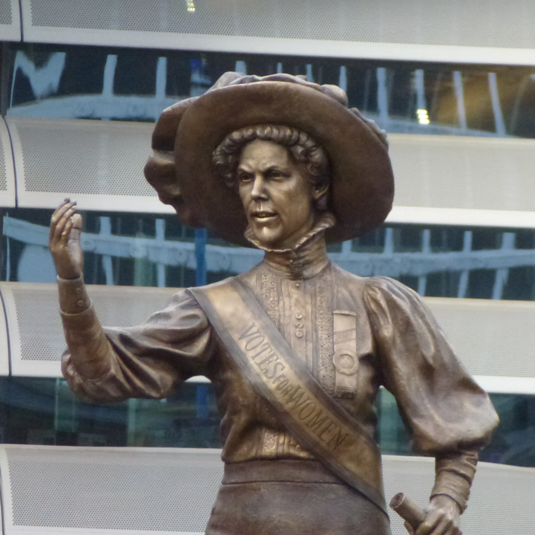 Alice Hawkins statue Leicester 4th February 2018